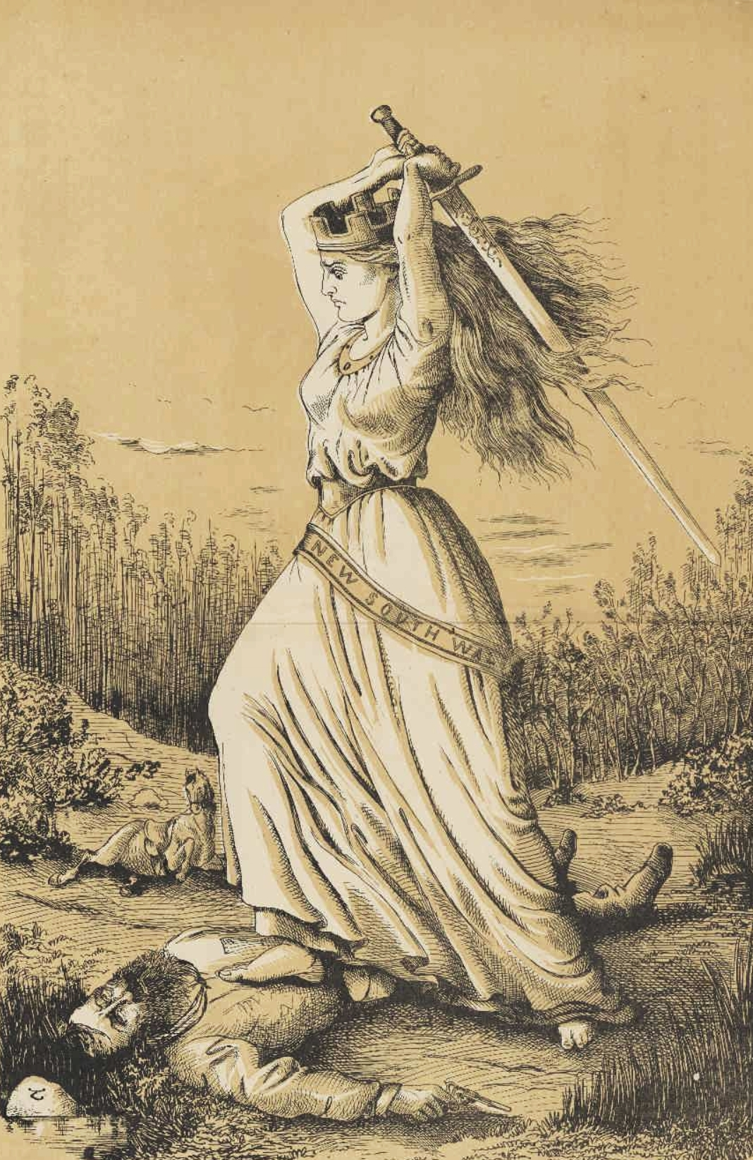 The Last of Bushrangers: A Tribute to the Australian Police, illustration